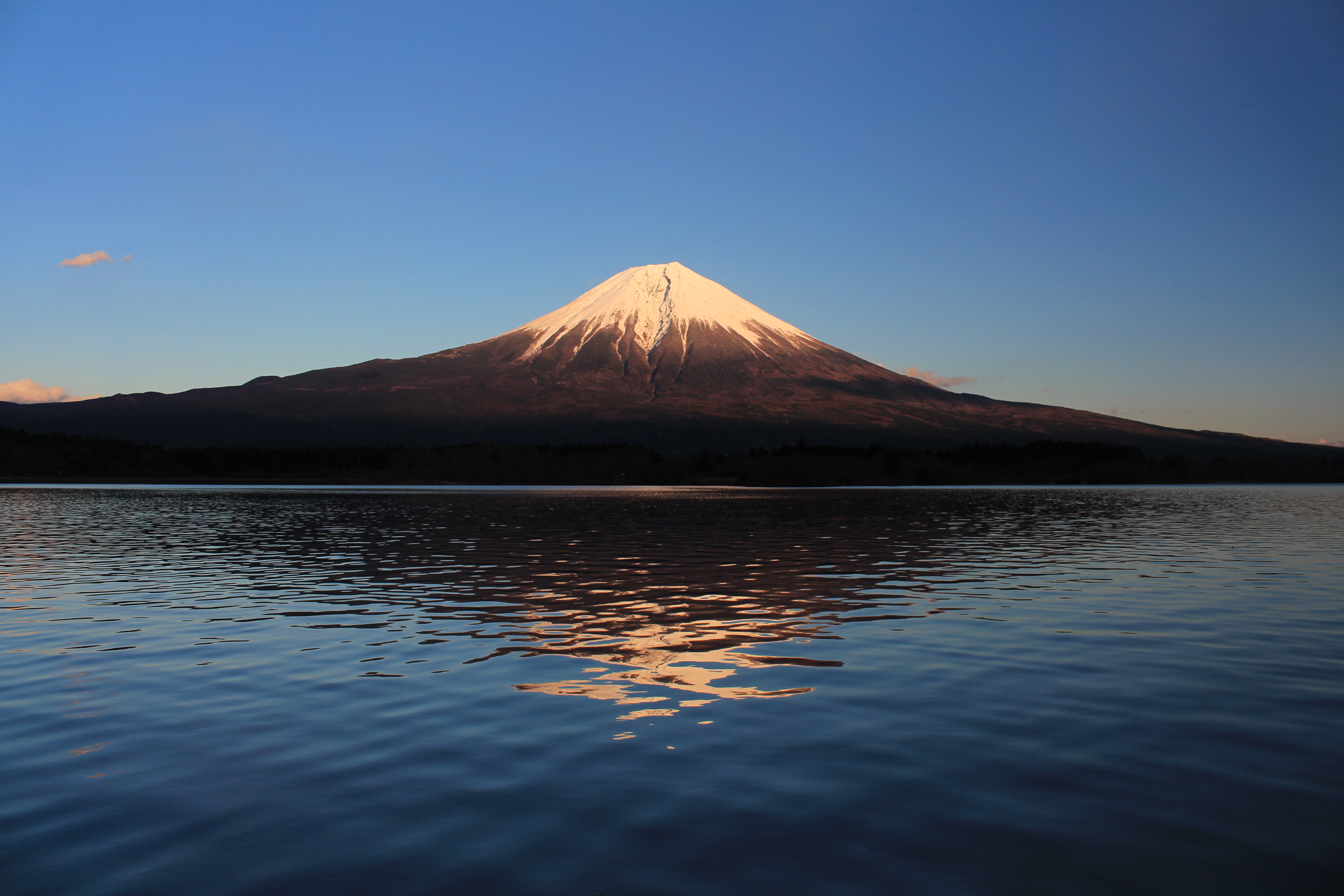 Mount Fuji seen from Laku Tanuki in Fujinamoya, Shizuoka prefecture, Japan.